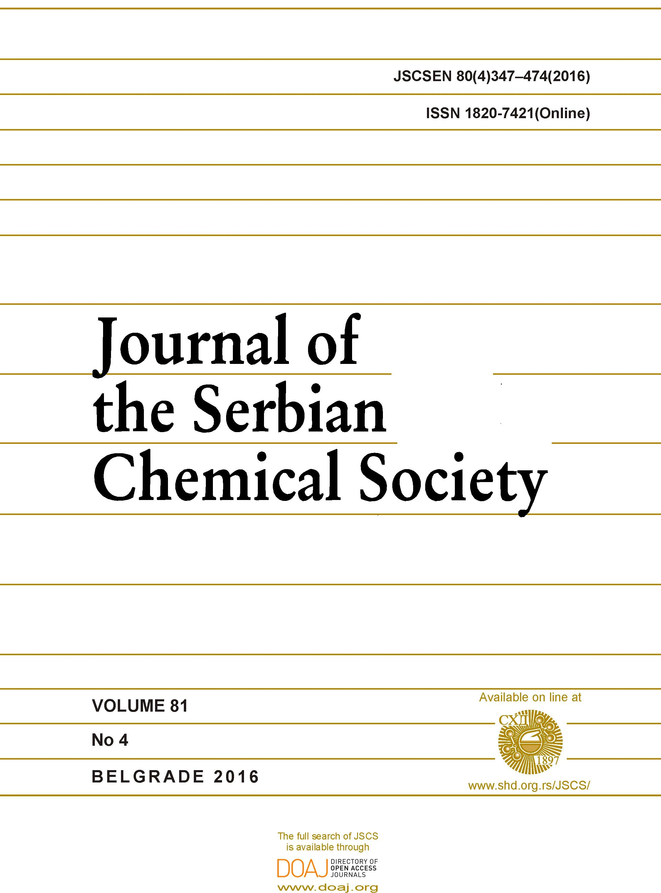 Front page